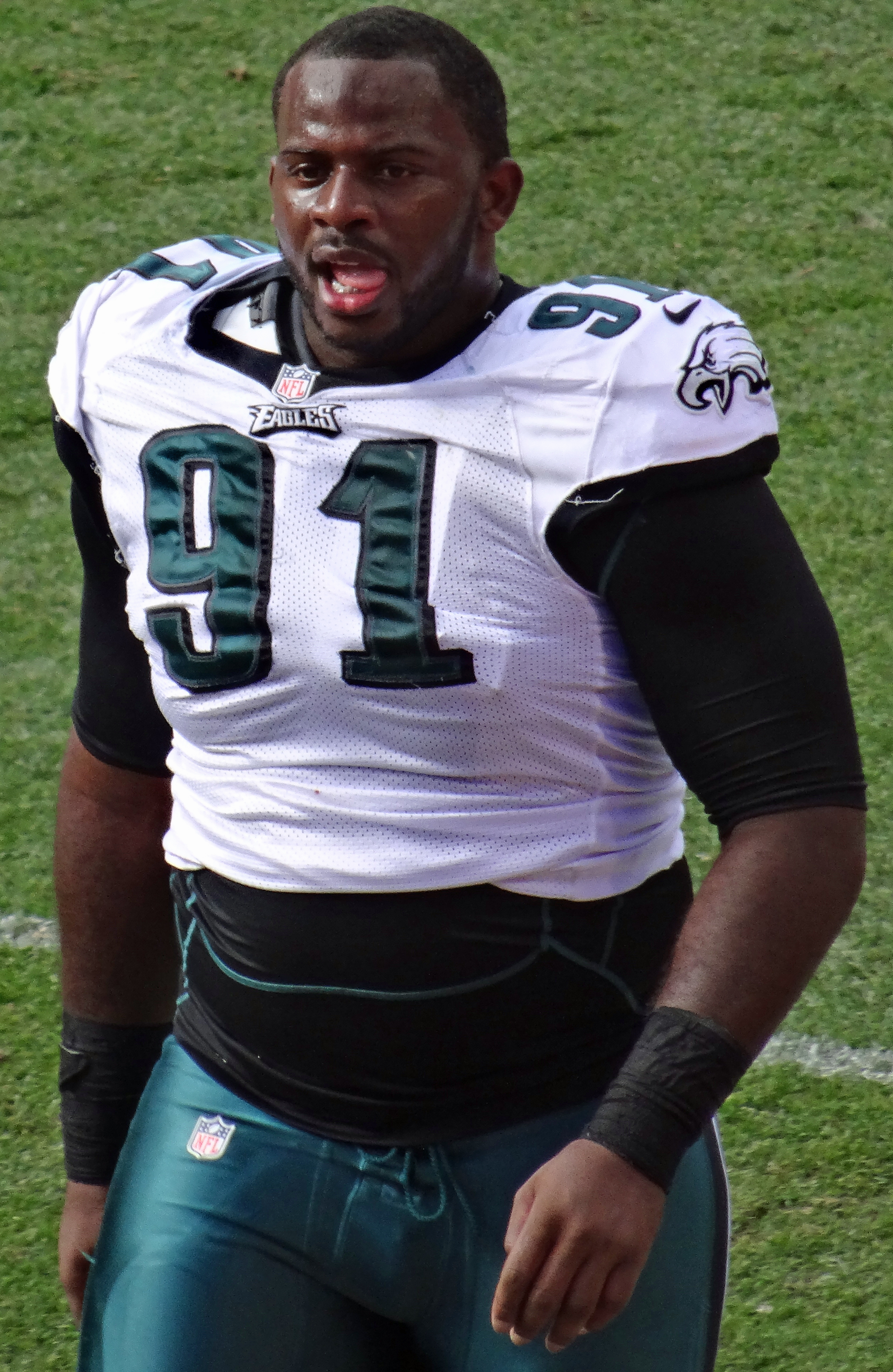 Fletcher Cox, a player on the National Football League.